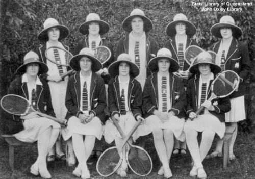 Image title:Portrait of St Mary's College tennis team, Charters Towers, Queensland, ca.1930 Description:"Portrait of St Mary's College tennis team at Charters Towers. The girls hold tennis racquets and are dressed in school uniforms with blazers, ties and hats." This school merged with St Columba’s Primary School and Mount Carmel College in 1998 to form Columba Catholic College.